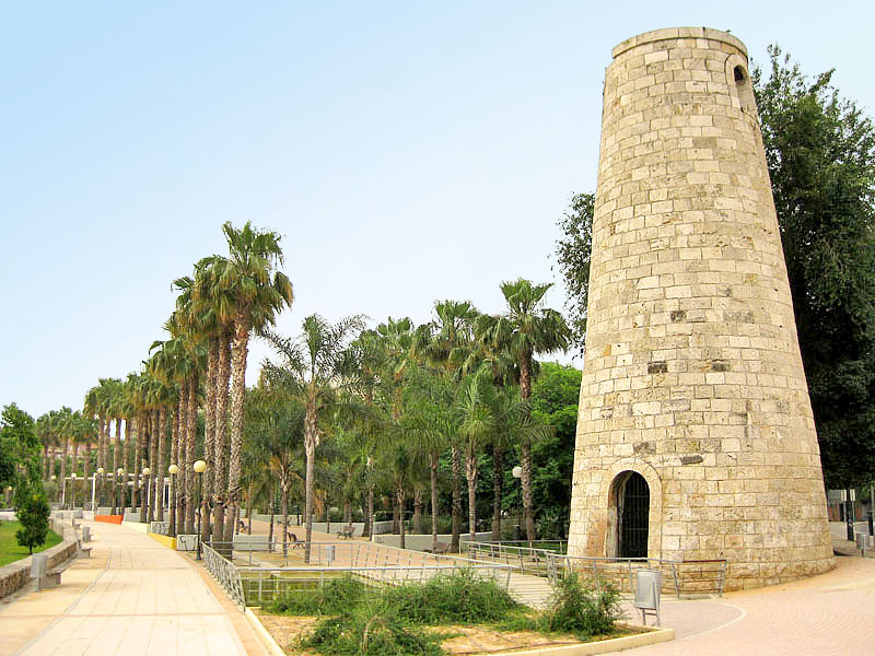 Jardí d'Albalat dels Tarongers, Valencia, Spain